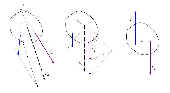 Resultant force (net force)